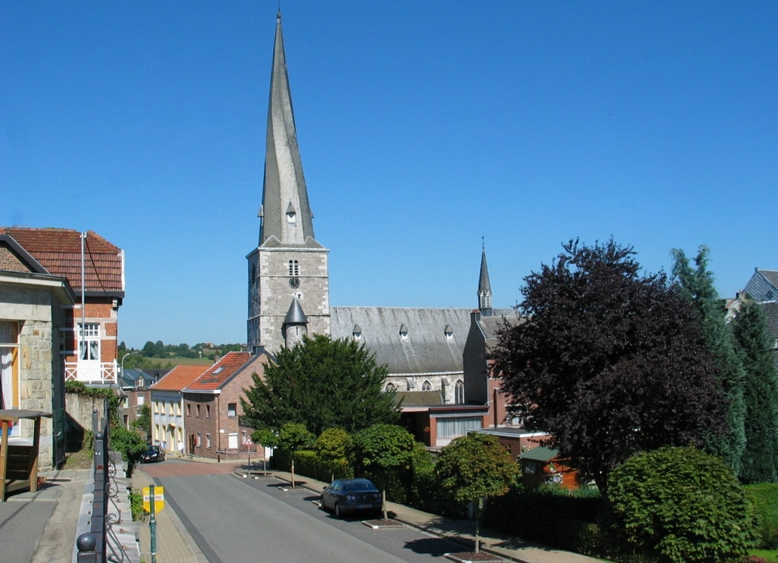 Church of Baelen, Belgium